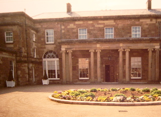 Not a great image, but the best I could do. A film camera photo of mine rephotographed on my digital camera.